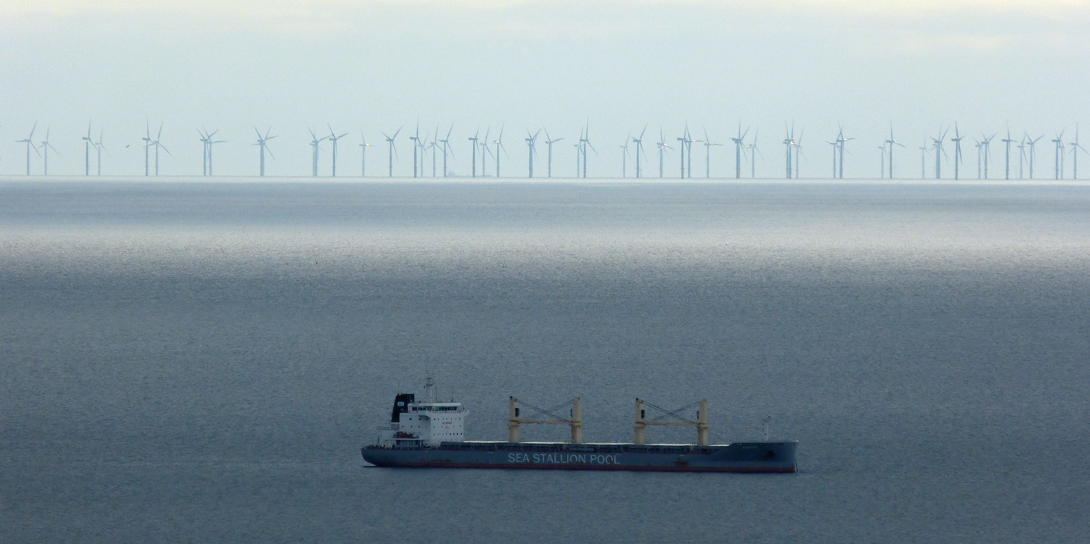 Ship at anchor on the east coast of Anglesey with the massed ranks of Gwynt y Môr offshore wind farm across the bay. Seen from west, from near Nebo.